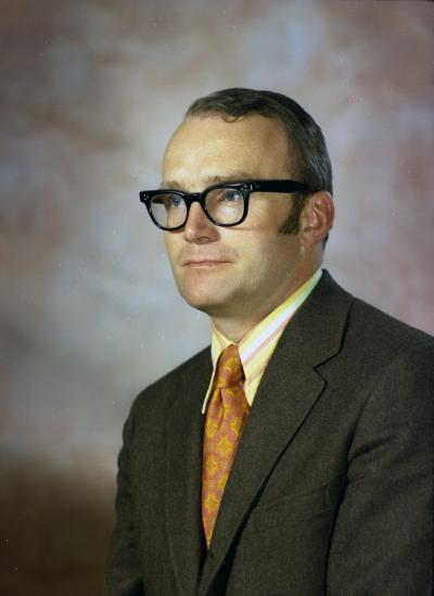 Representative Ned Shera, 1971